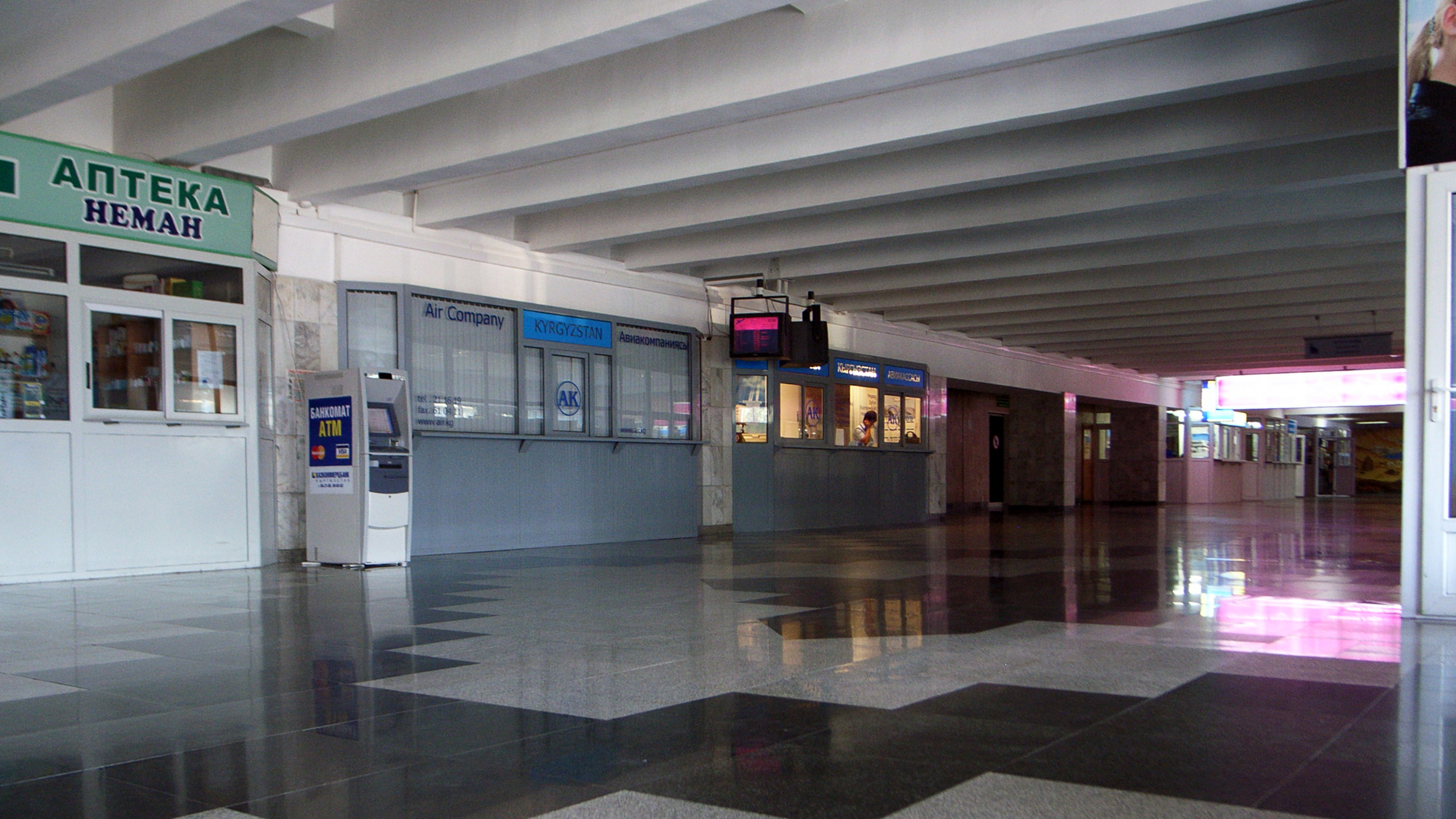 Arrival area, Manas International Airport, Kyrgyzstan